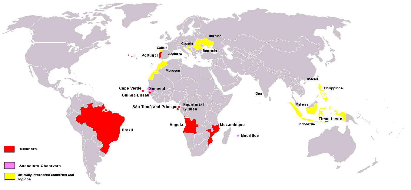 Edited map from Felipe Fontoura, added Officially interested countries and regions